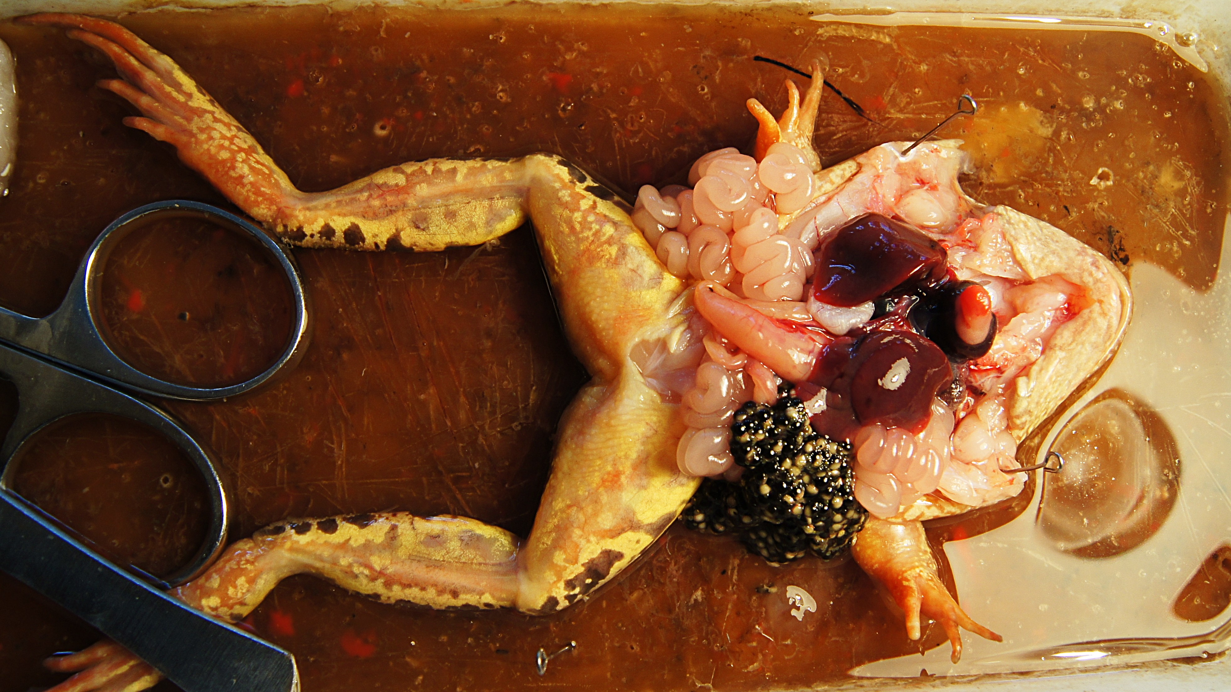 Frog dissection during practical work at Faculty of Biology, Moscow State University